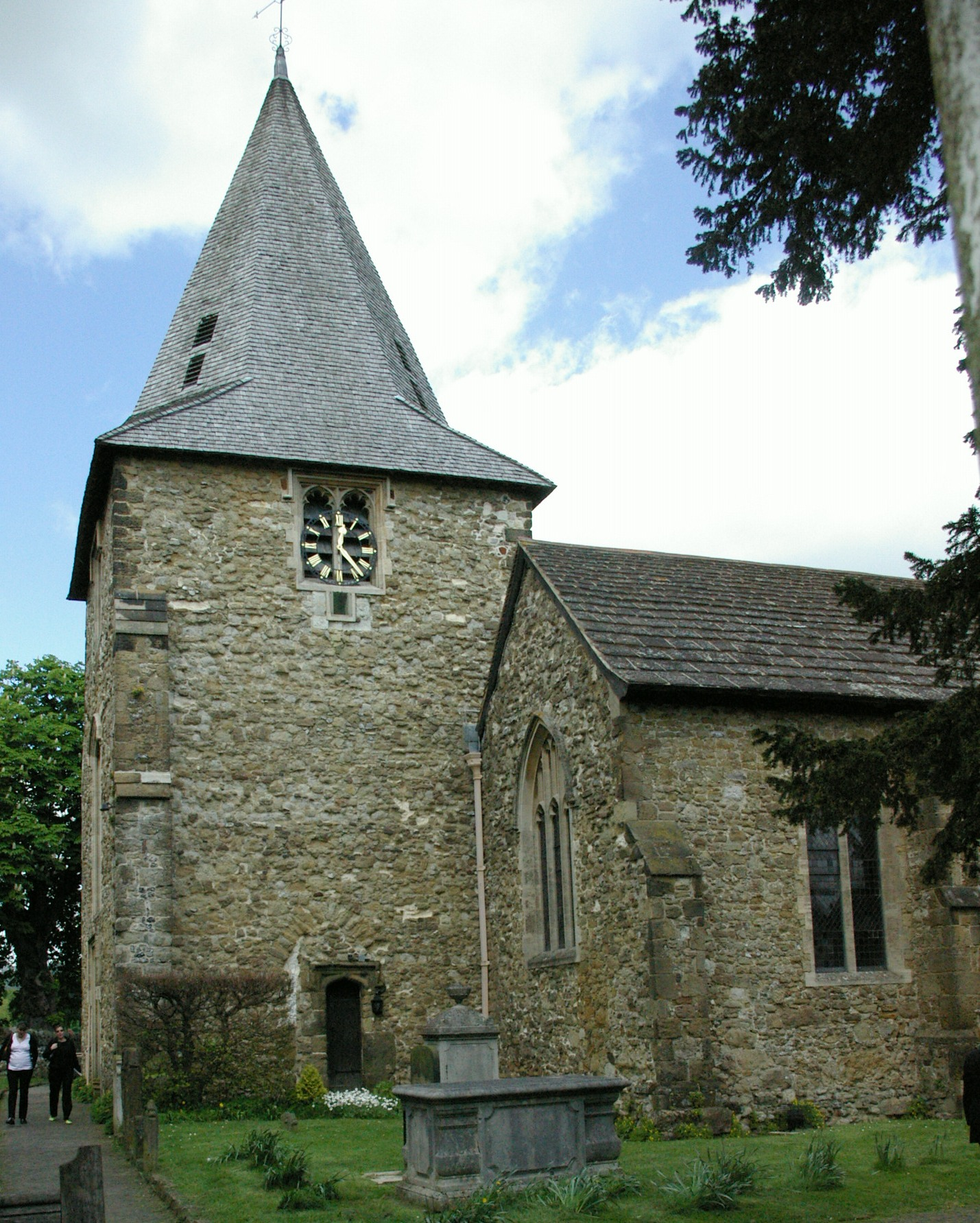 Westerham, Kent: the church. Digital photo by me, Ross Burgess, 6 May 2005.